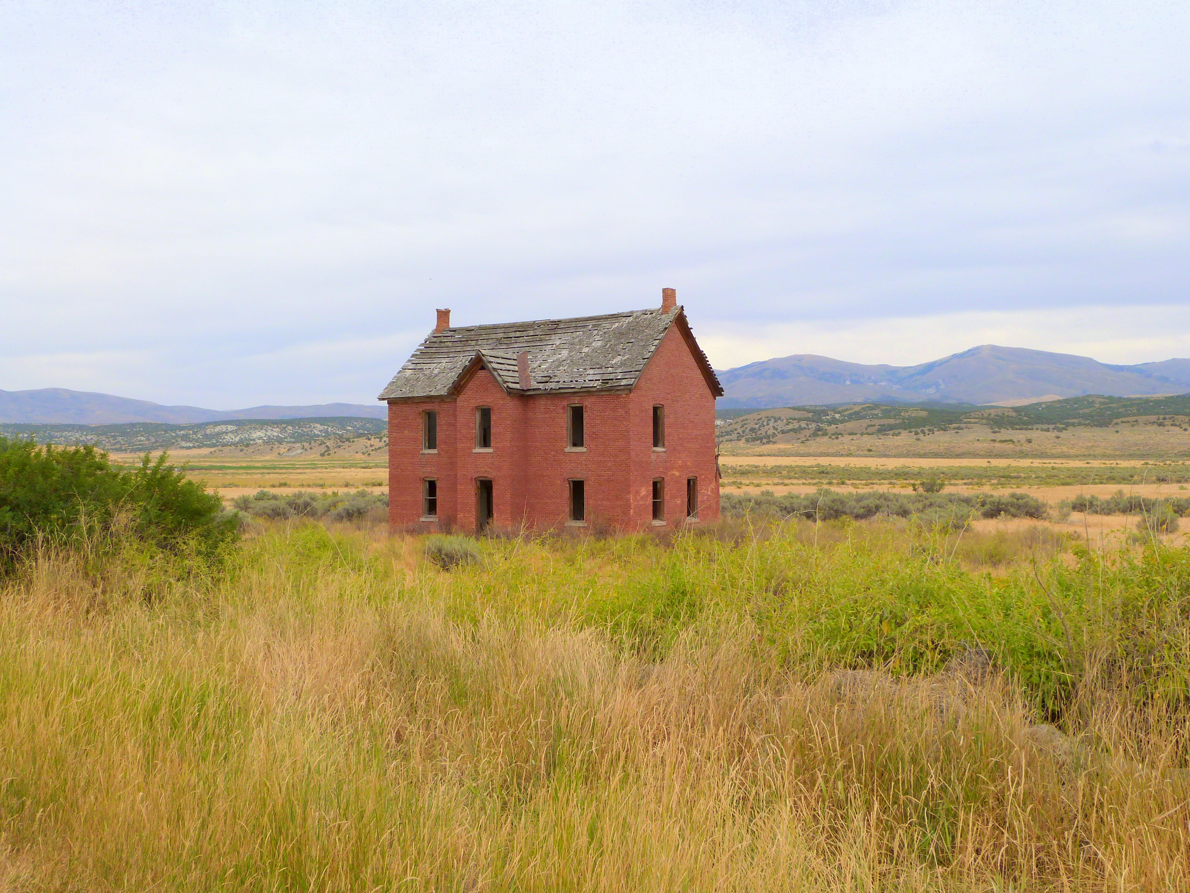 The historic A. N. Tanner House (built 1899), located on Grouse Creek Road in Grouse Creek, Utah, United States, is listed on the U.S. National Register of Historic Places.